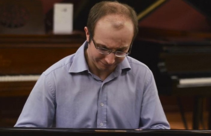 Alexander Gavrylyuk talks Bach, Mussorgsky and Schumann.